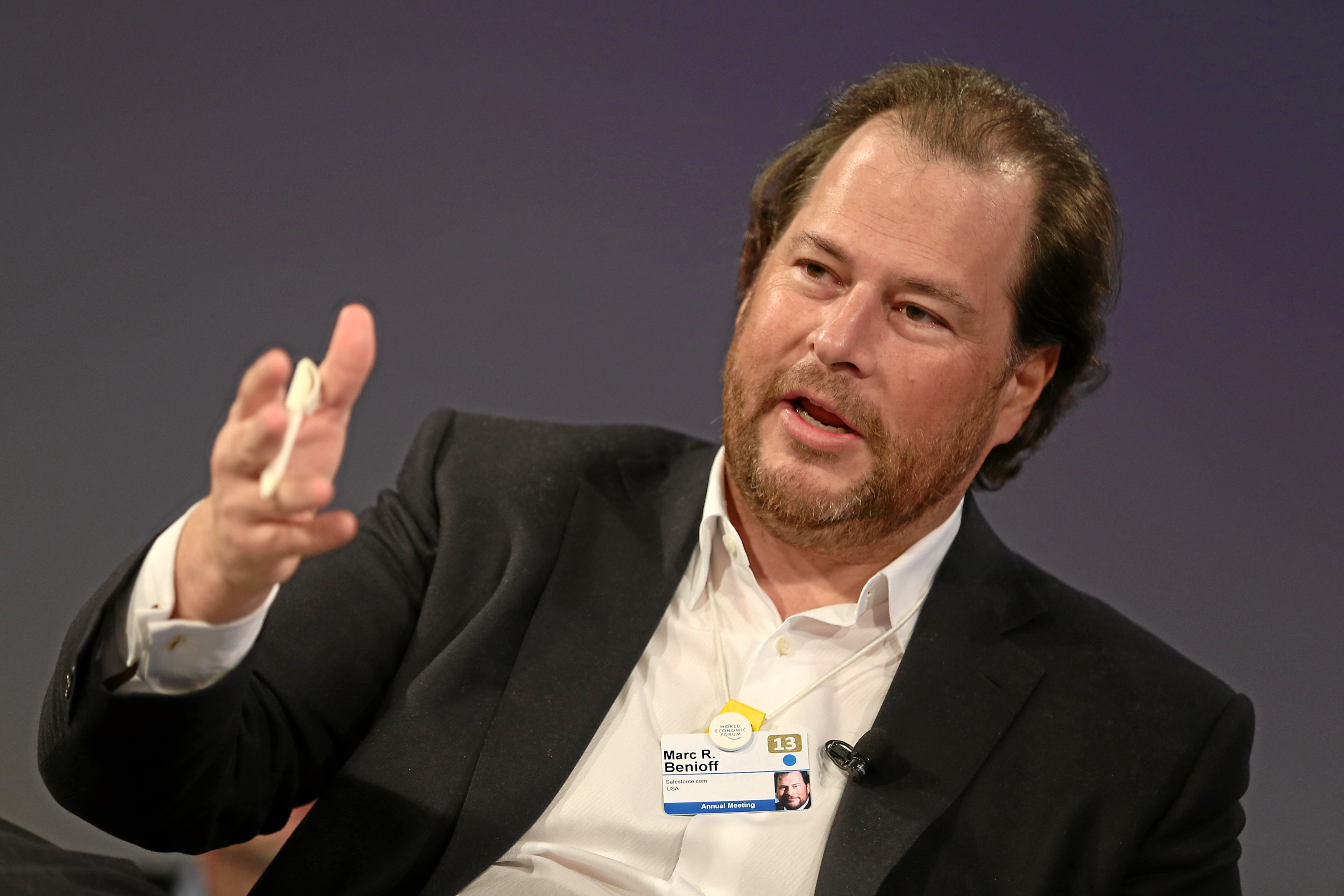 DAVOS/SWITZERLAND, 24JAN13 - Marc R. Benioff, Chairman and Chief Executive Officer, , USA; Young Global Leader Alumnus gestures while speaking during the session 'Enterprise Dynamism - Unleashing Entrepreneurial Innovation' at the Annual Meeting 2013 of the World Economic Forum in Davos, Switzerland, January 24, 2013.. . Copyright by World Economic Forum. . Moritz Hager